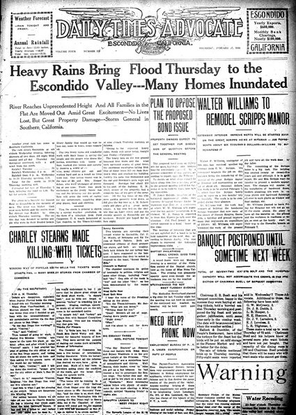 Front page of the Daily Times-Advocate, published in Escondido, California